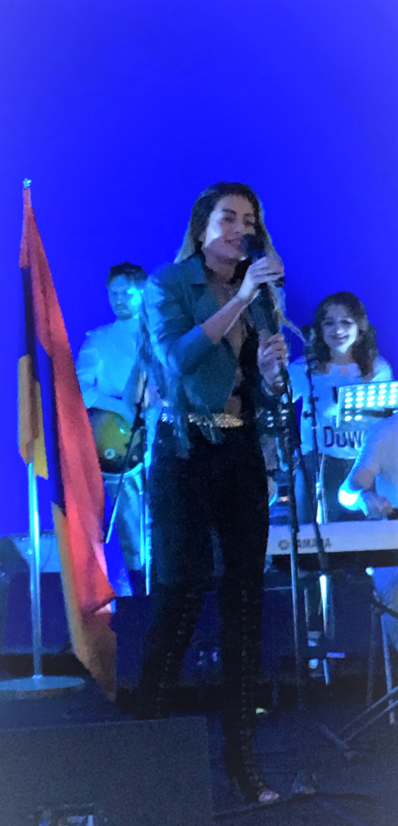 Iveta singing